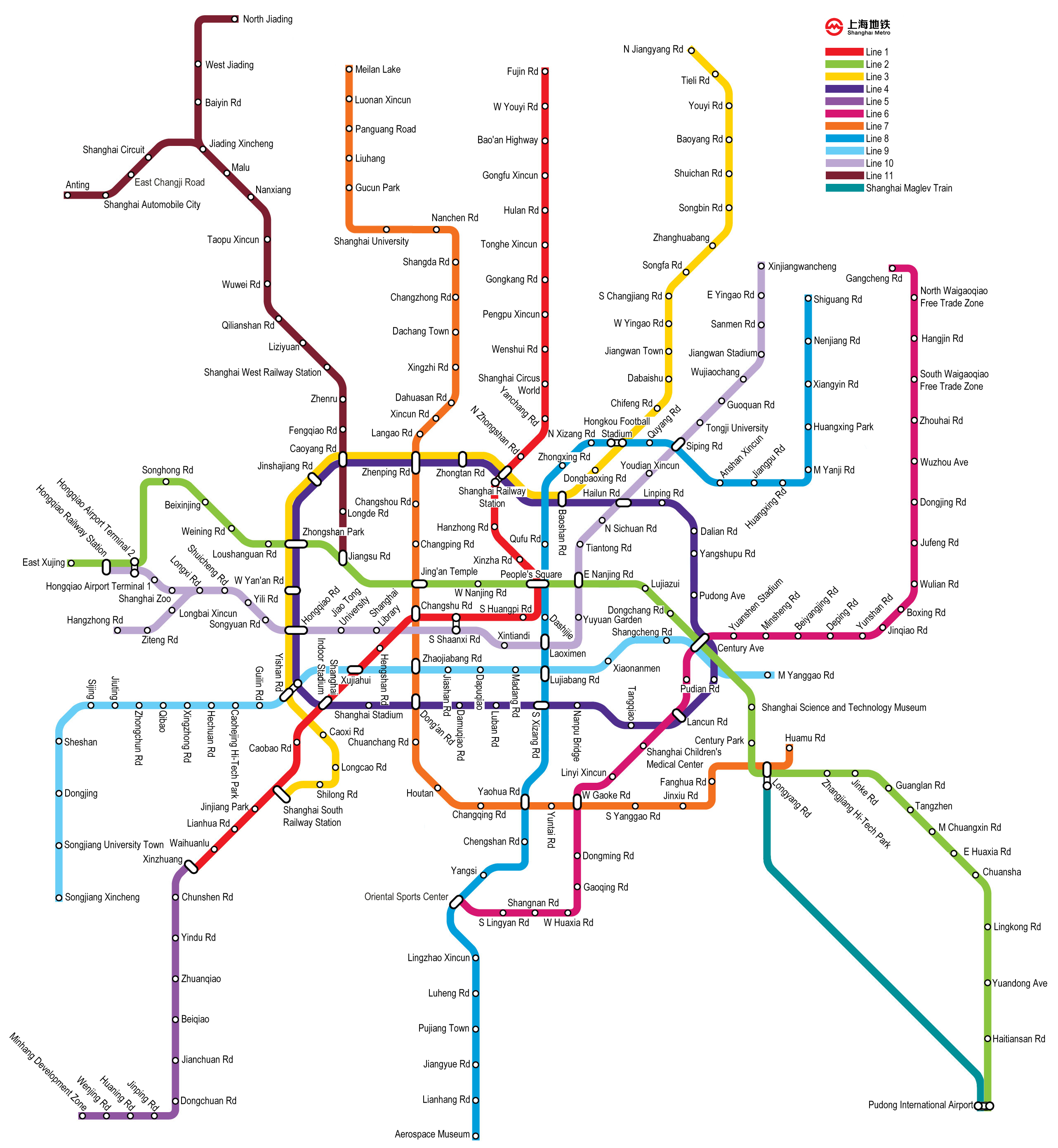 An outdated map of the Shanghai Metro in English (c. 2010)